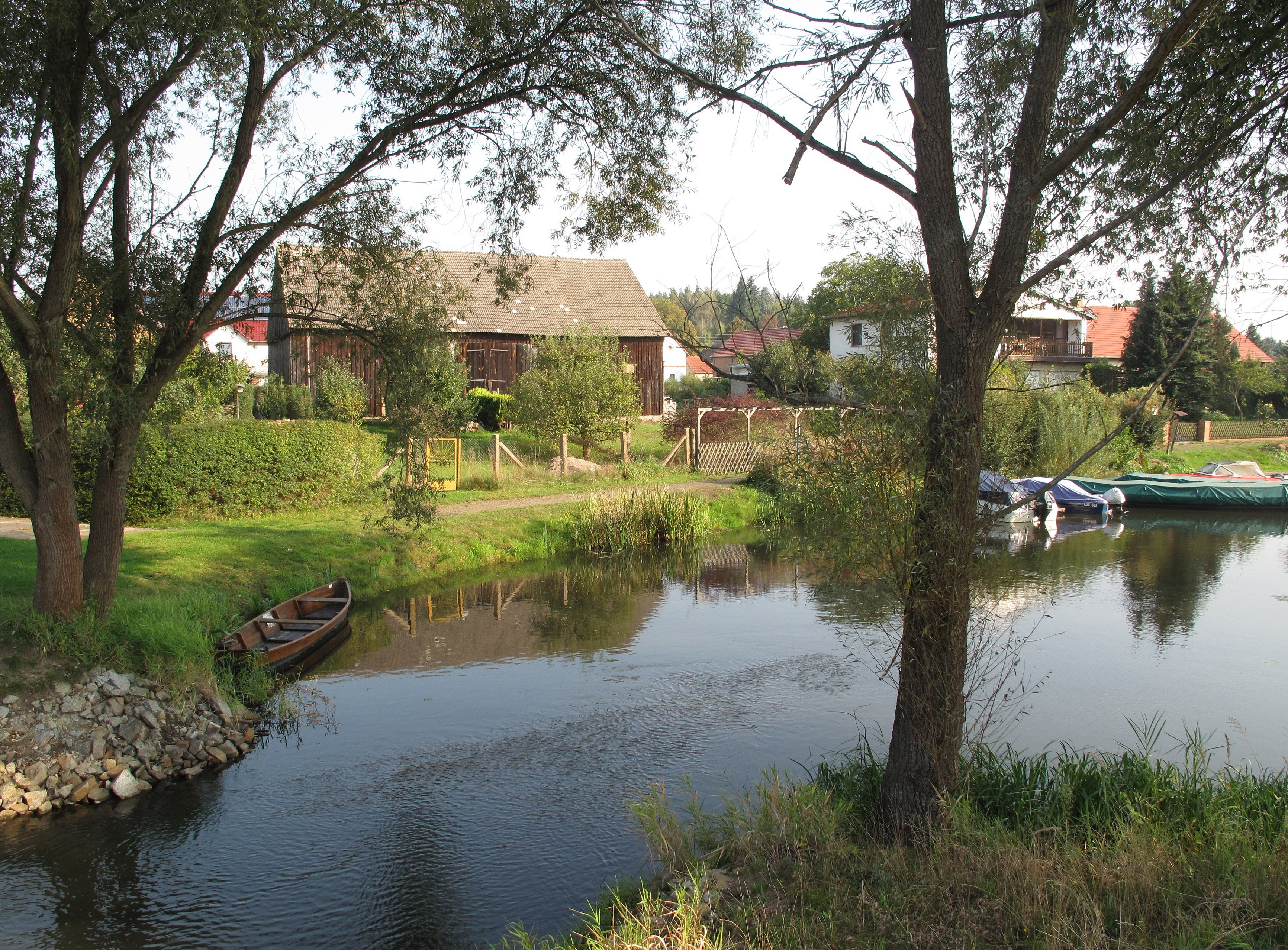 Side arm of the river Spree in the village Werder, a part of the municipality Tauche in the District Oder-Spree, Brandenburg, Germany.